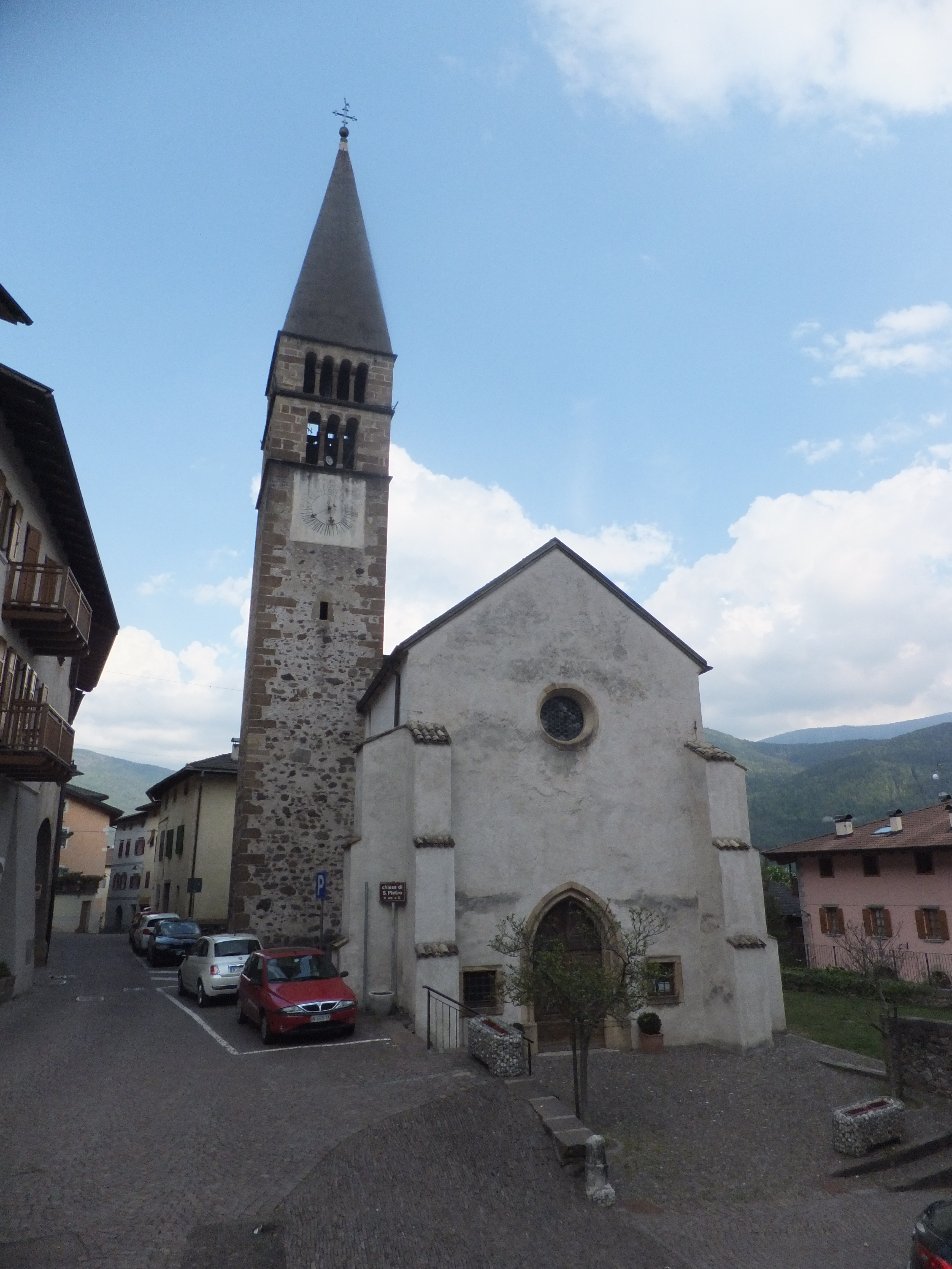 Cembra - Saint Peter church